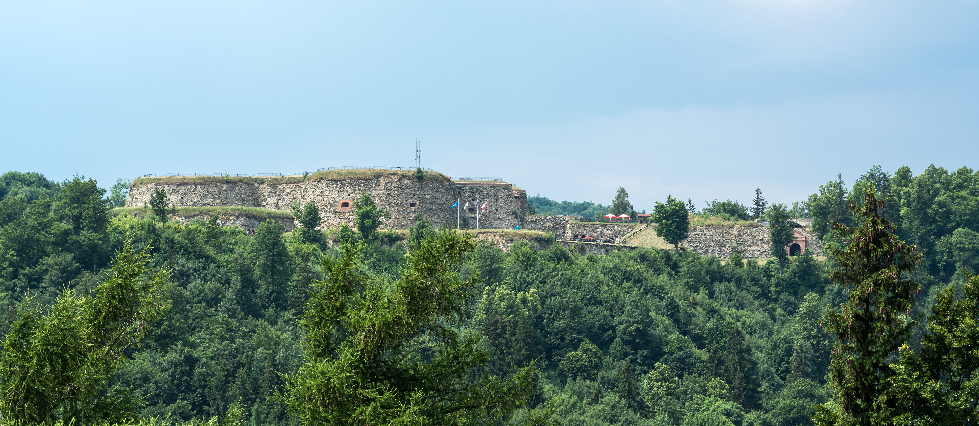 Srebrna Góra Fortress